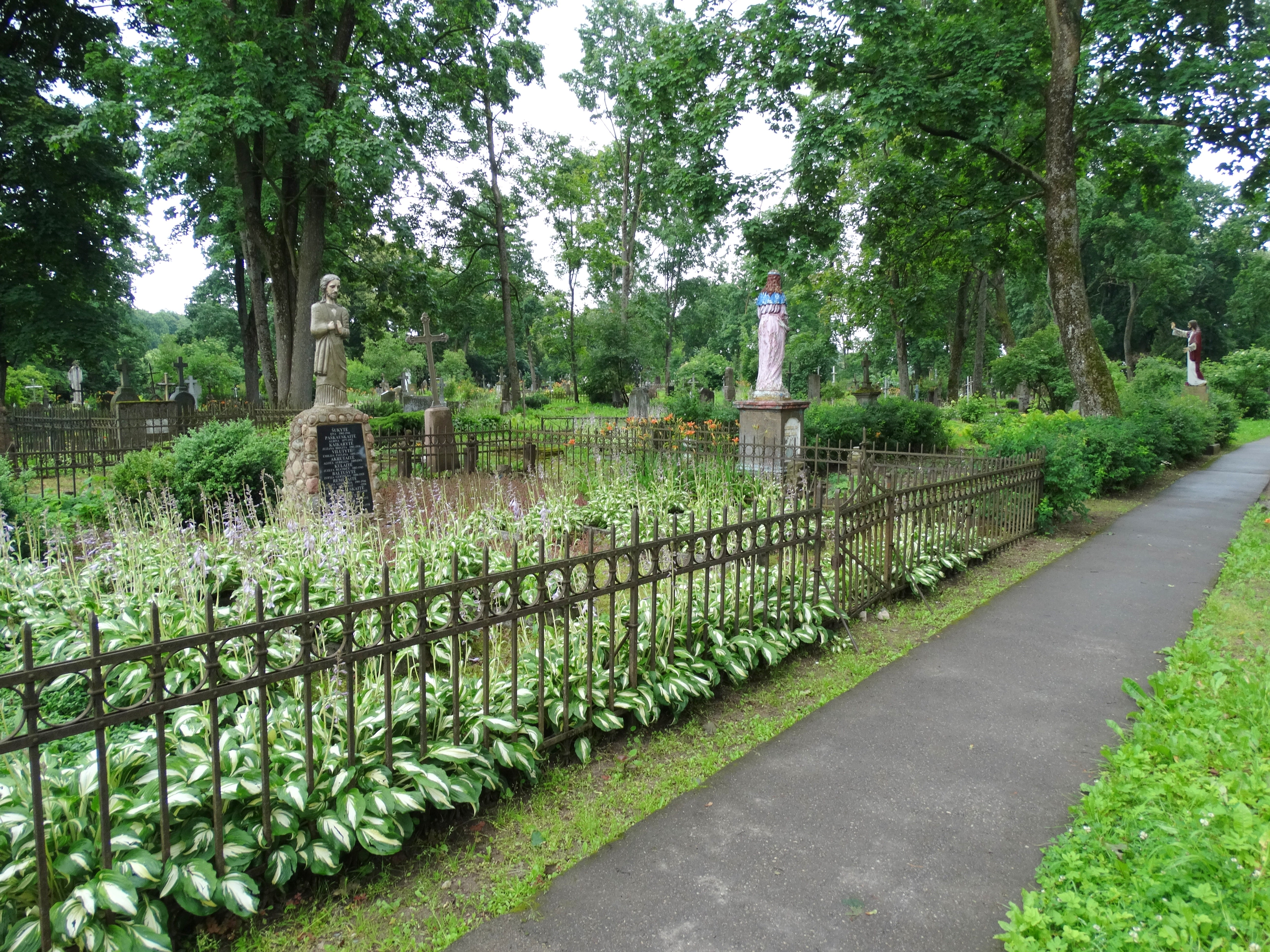 Old Cemetery of the St. Apostle Peter and Paul's Parish, Panevėžys, Lithuania